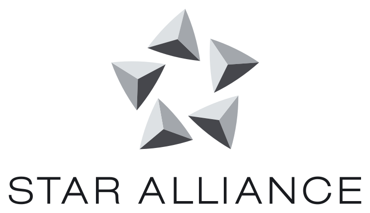 Star Alliance Logo